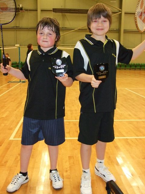 Badminton at Birkdale School